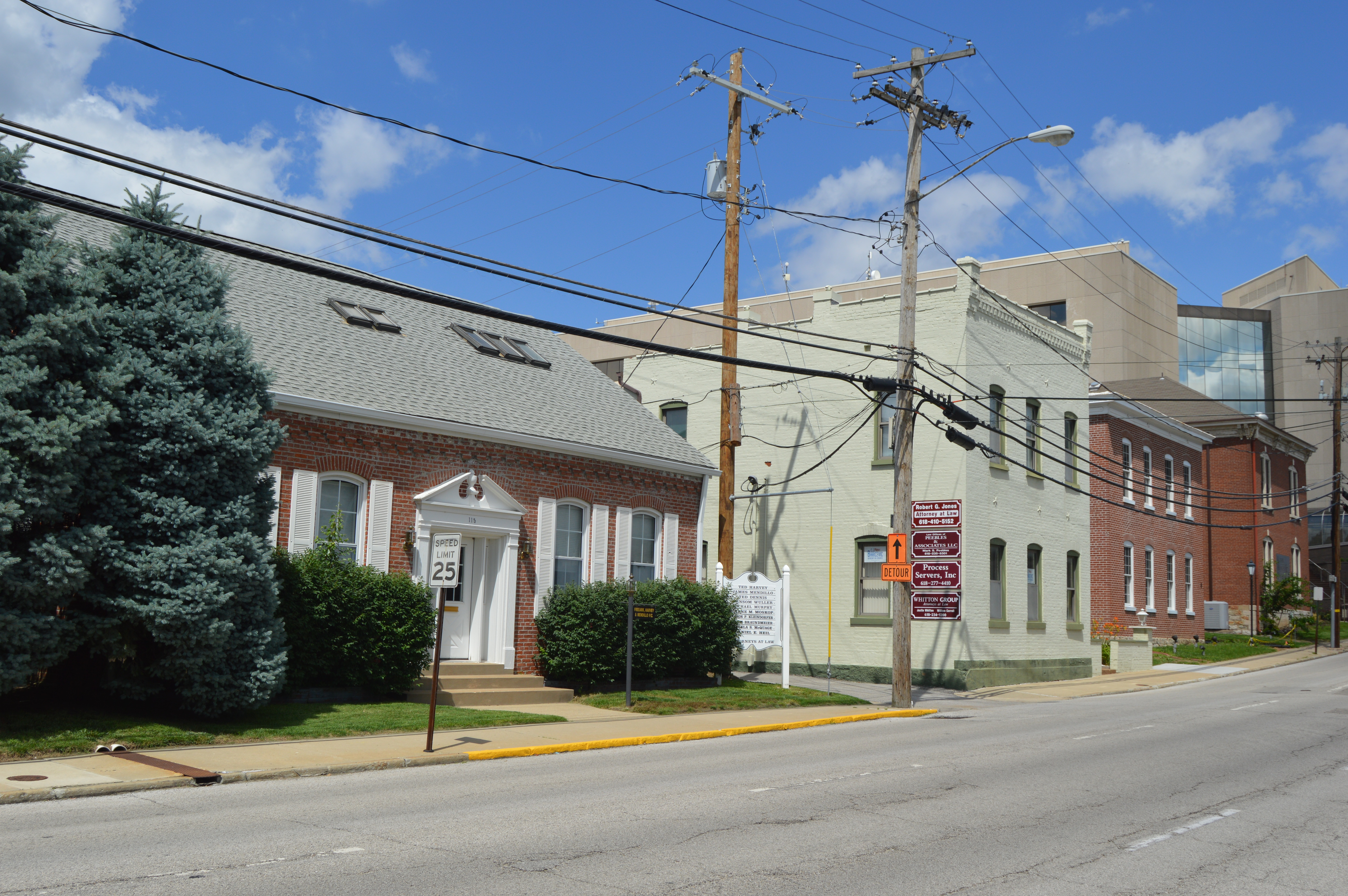 Buildings on the northern side of Washington Street, looking east toward First Street and the St. Clair County Courthouse, in Belleville, Illinois, United States. This block is part of the Blair Historic District, a historic district that is listed on the National Register of Historic Places.